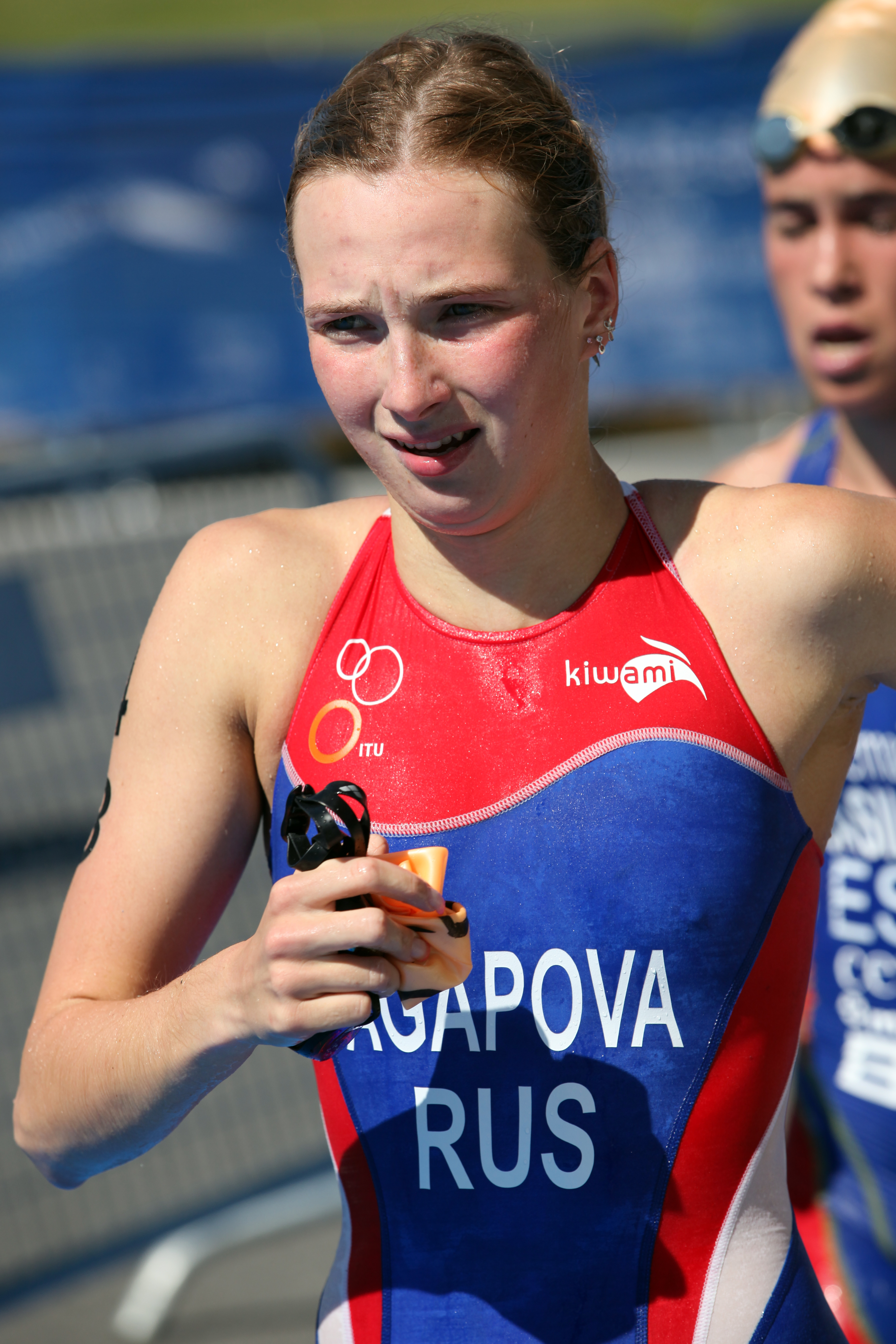 Olga Agapova (Ольга Алексеевна Агапова) at the Triathlon European Championships in Pontevedra.